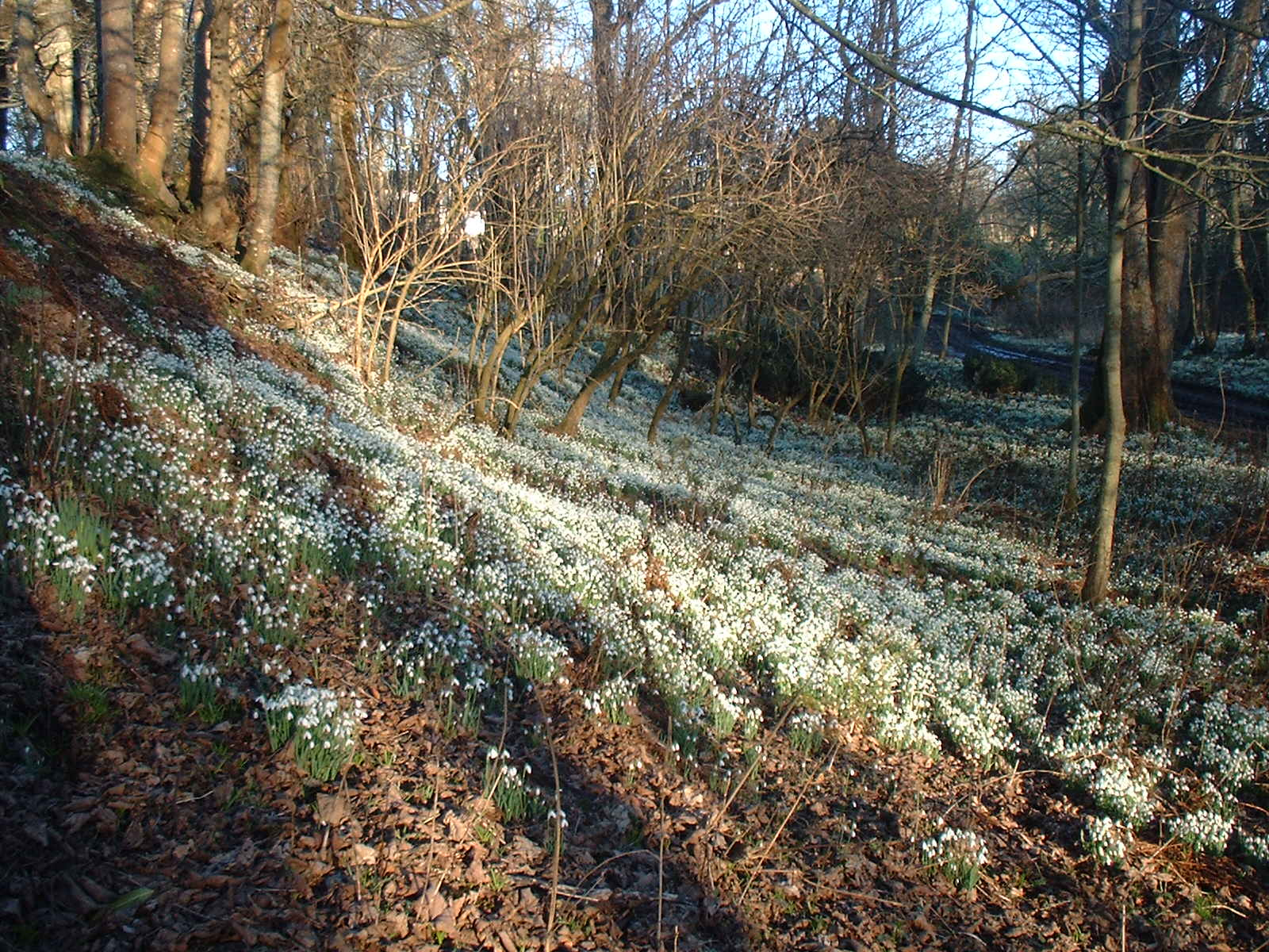 Ray Husthwaite Bridgend woods 28 Jan 2006